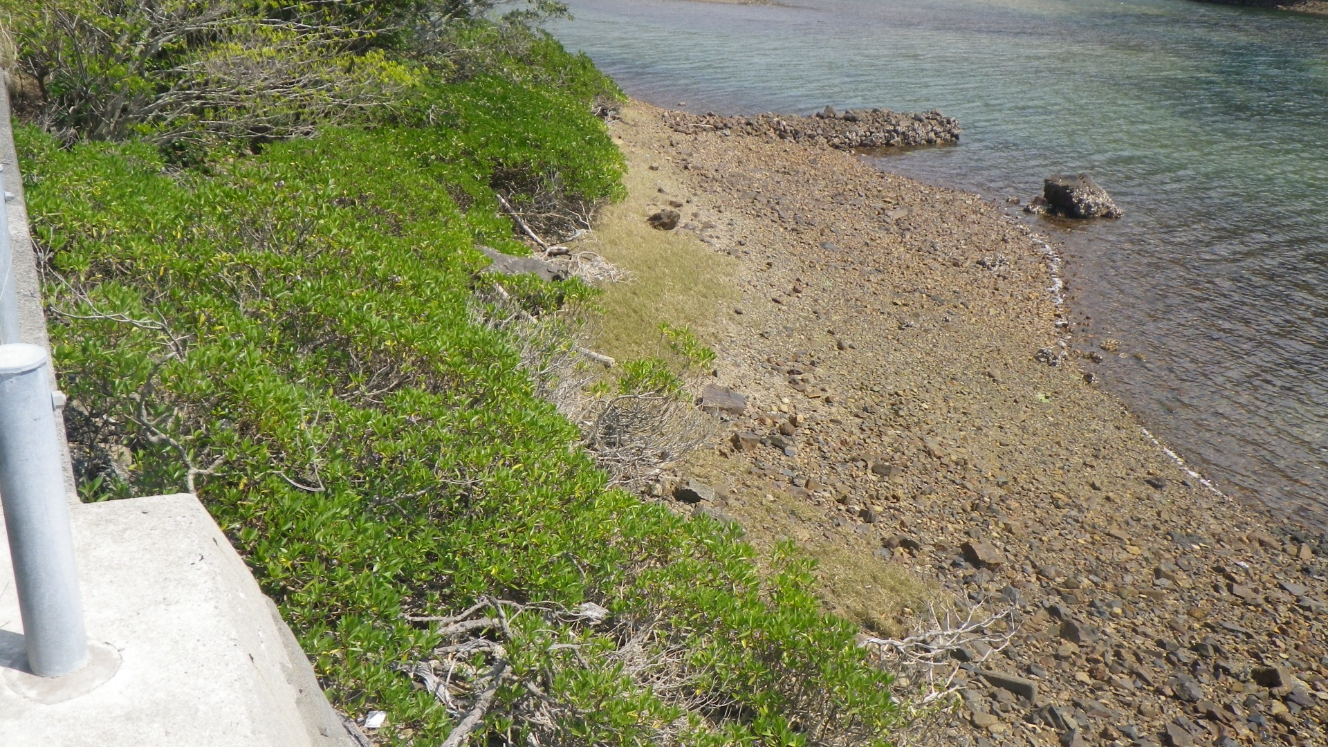 Myoporum bontioides (Sieb. et Zucc.) A. Gray. at Goto(Arakawa, Tamanoura), Nagasaki, Japan.